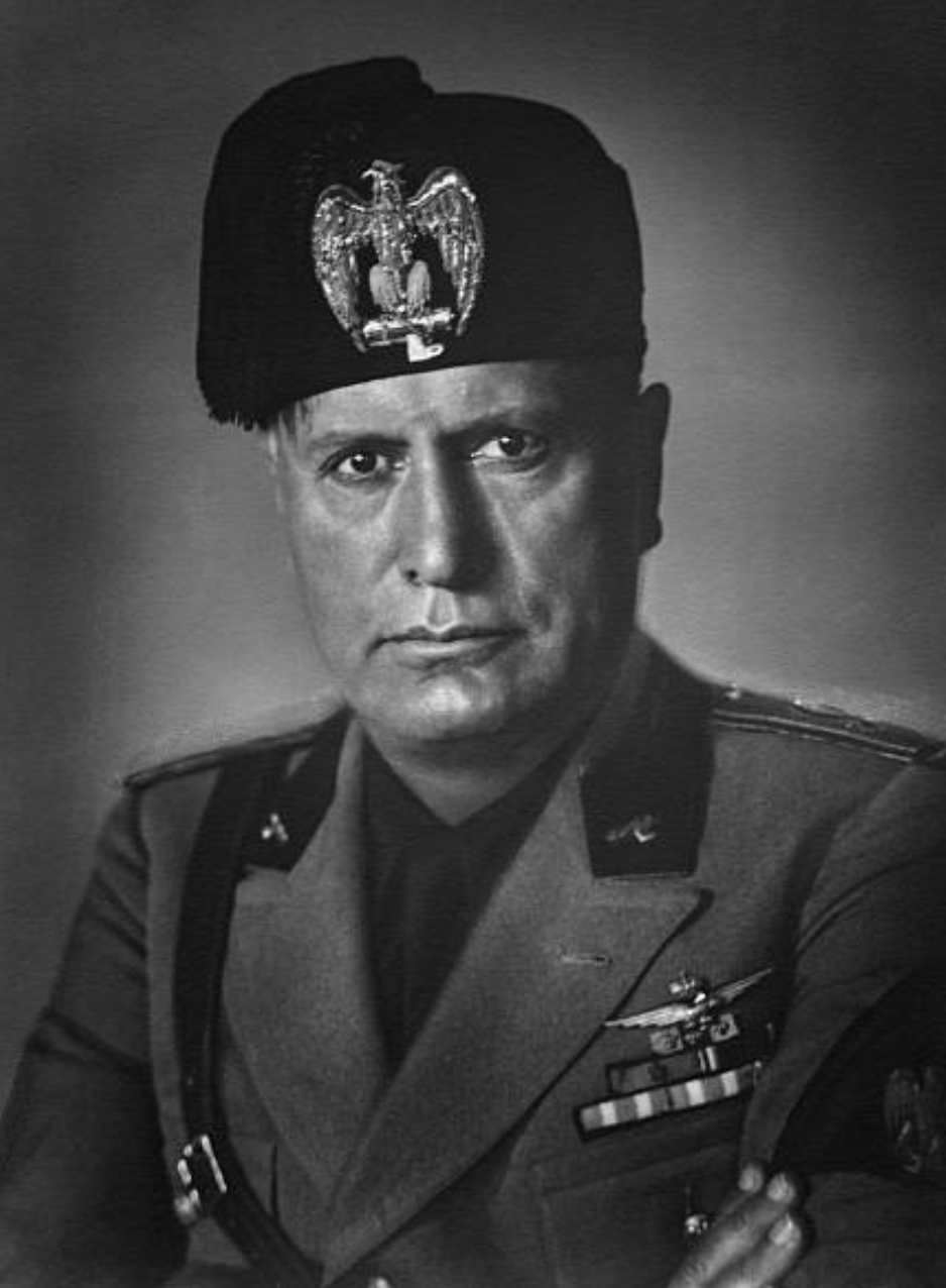 Benito Mussolini in 1930.